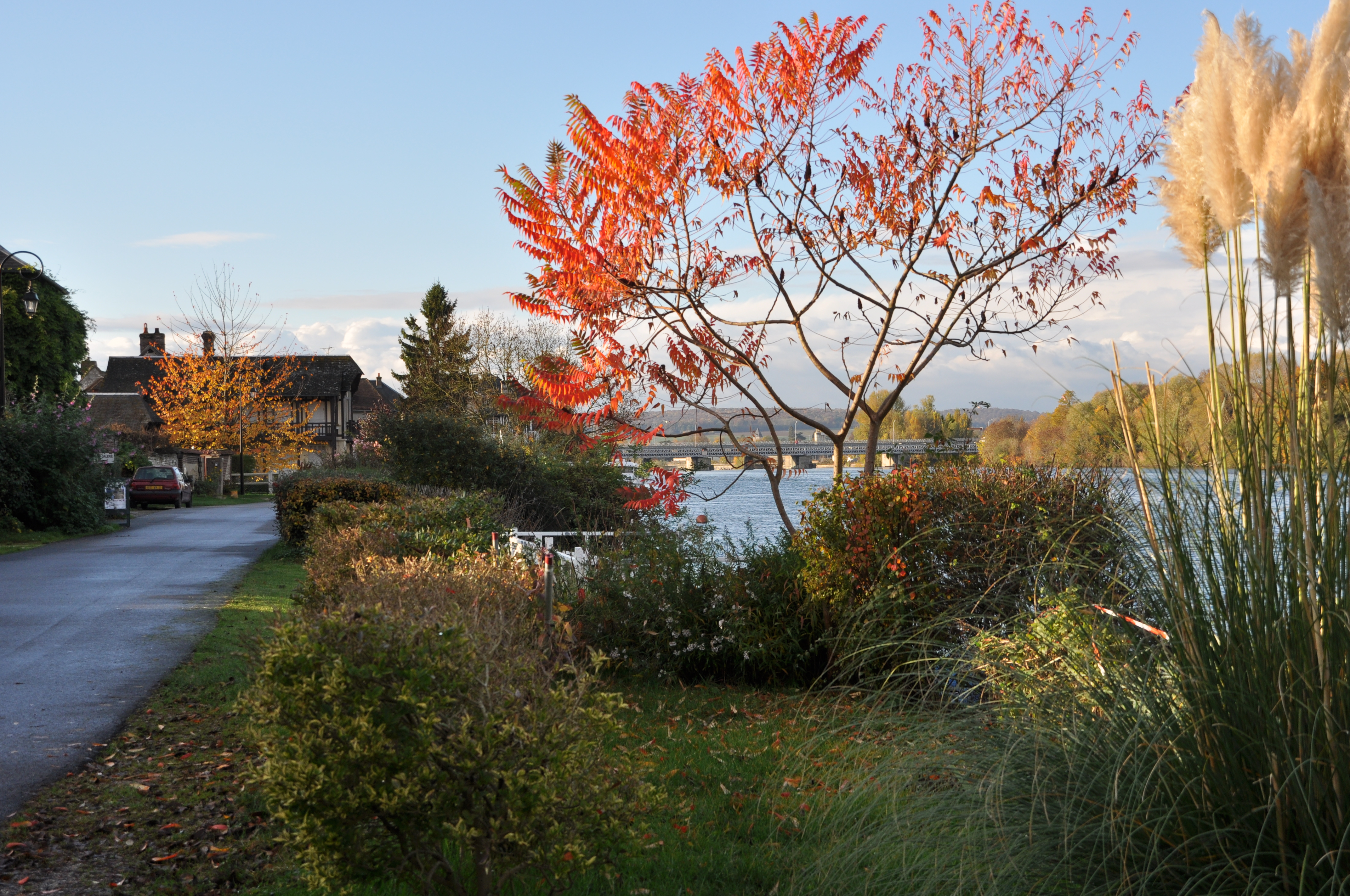 Border of the Seine River, Poses